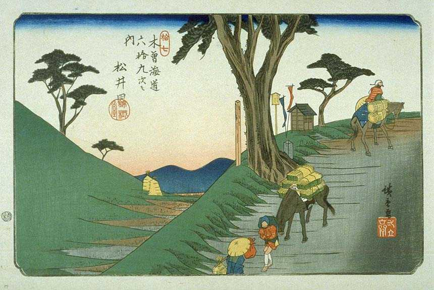 Matsuida on the Kisokaido, ukiyo-e prints by Hiroshige